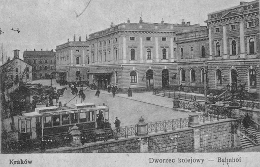 Narrow-gauge tram on a terminus near the Main Railroad Station in Kraków.